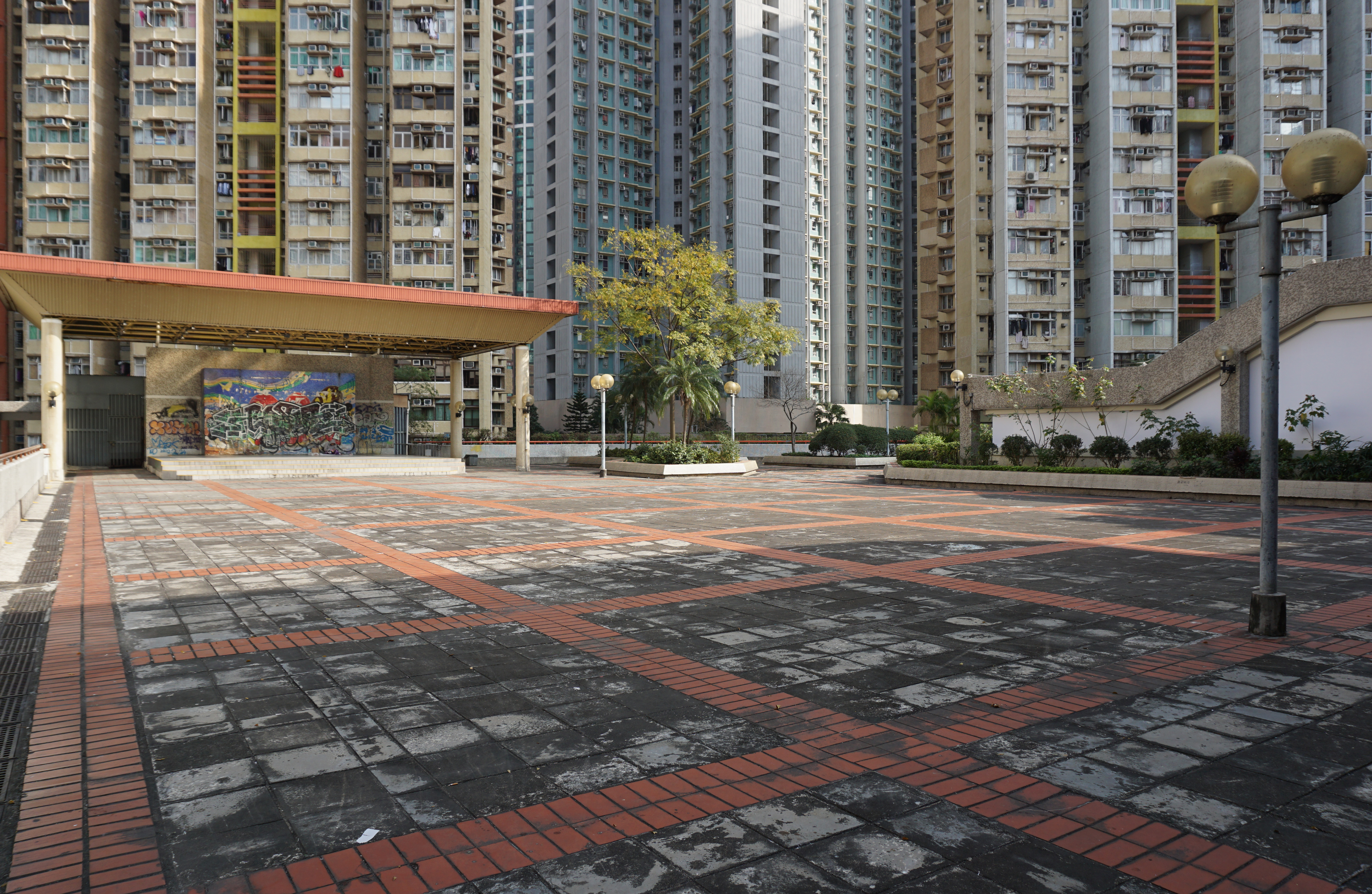 Cheung Fat Estate in Tsing Yi, Hong Kong.